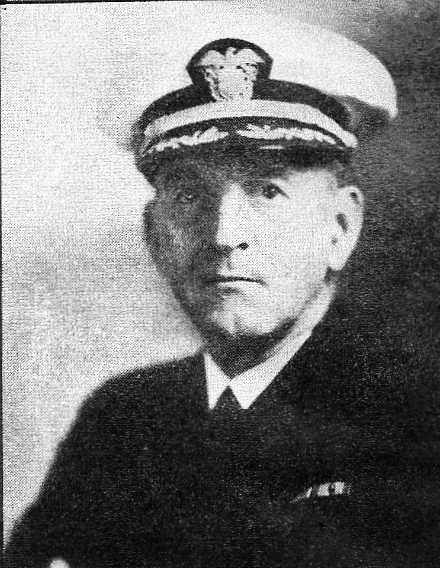 United States Navy Vice Admiral William R. Munroe (1886-1966)